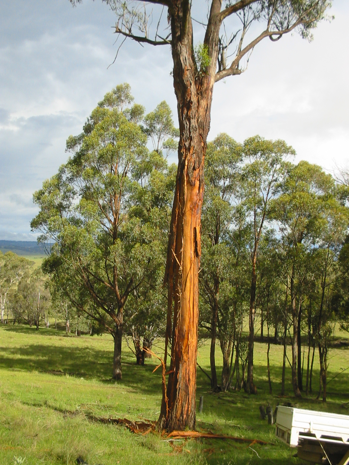 Eucalyptus caliginosa, "New England Stringybark" which has been hit by lightning.